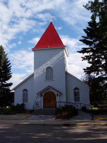 The RCMP church at depot.